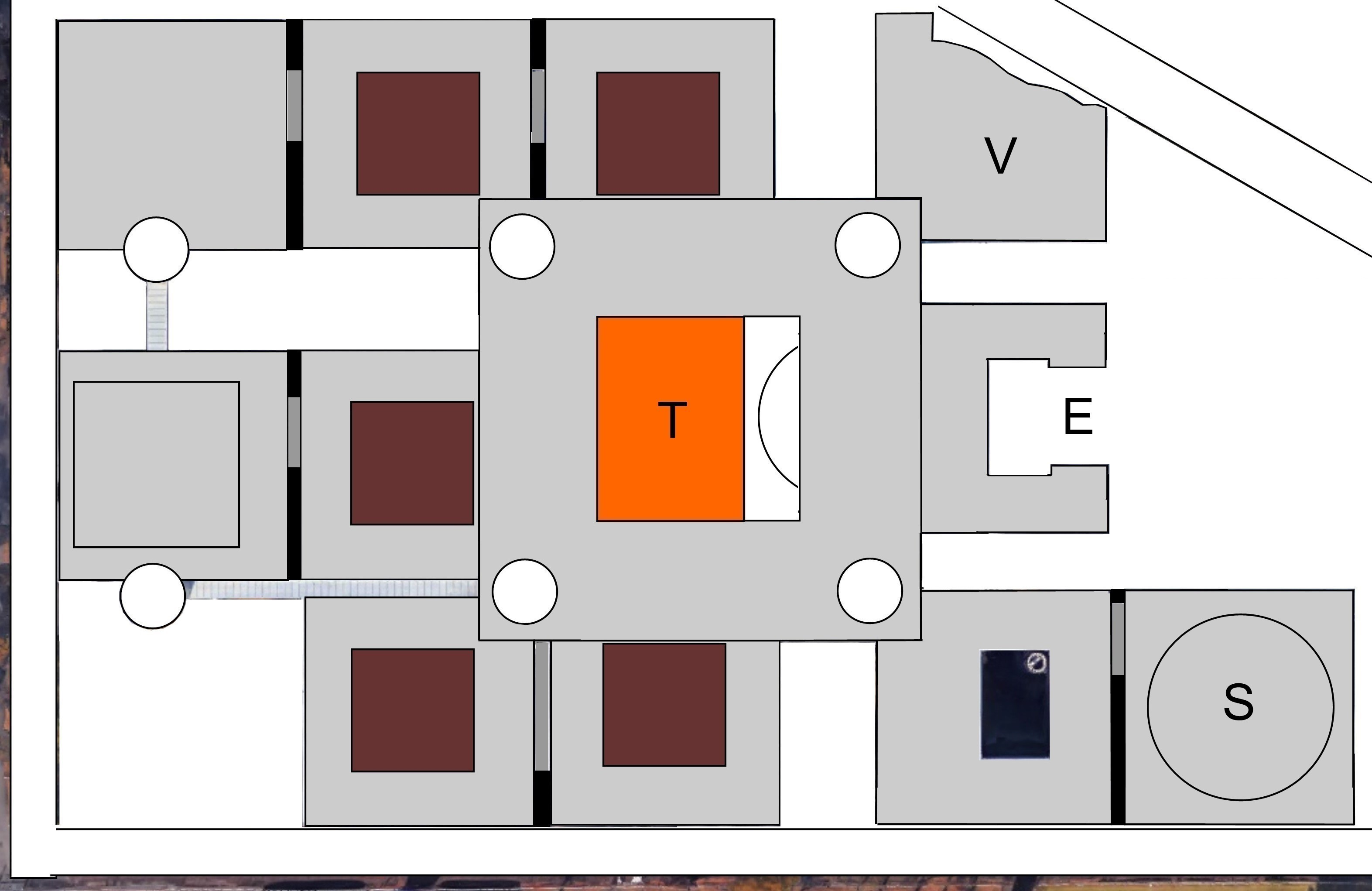 Layout of Nat Museum Ethnology, Osaka